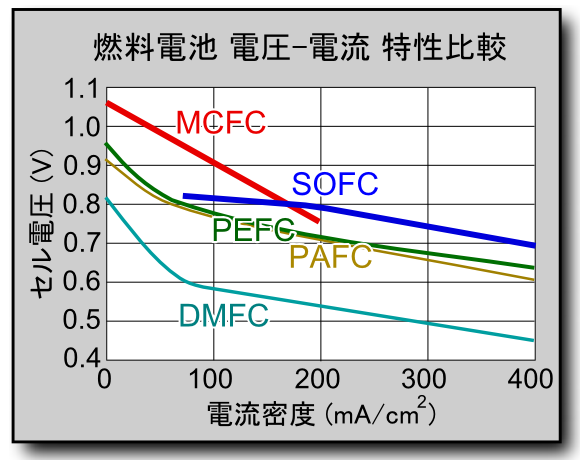 Fuel cell (V-I characteristic chart) Japanese ver.